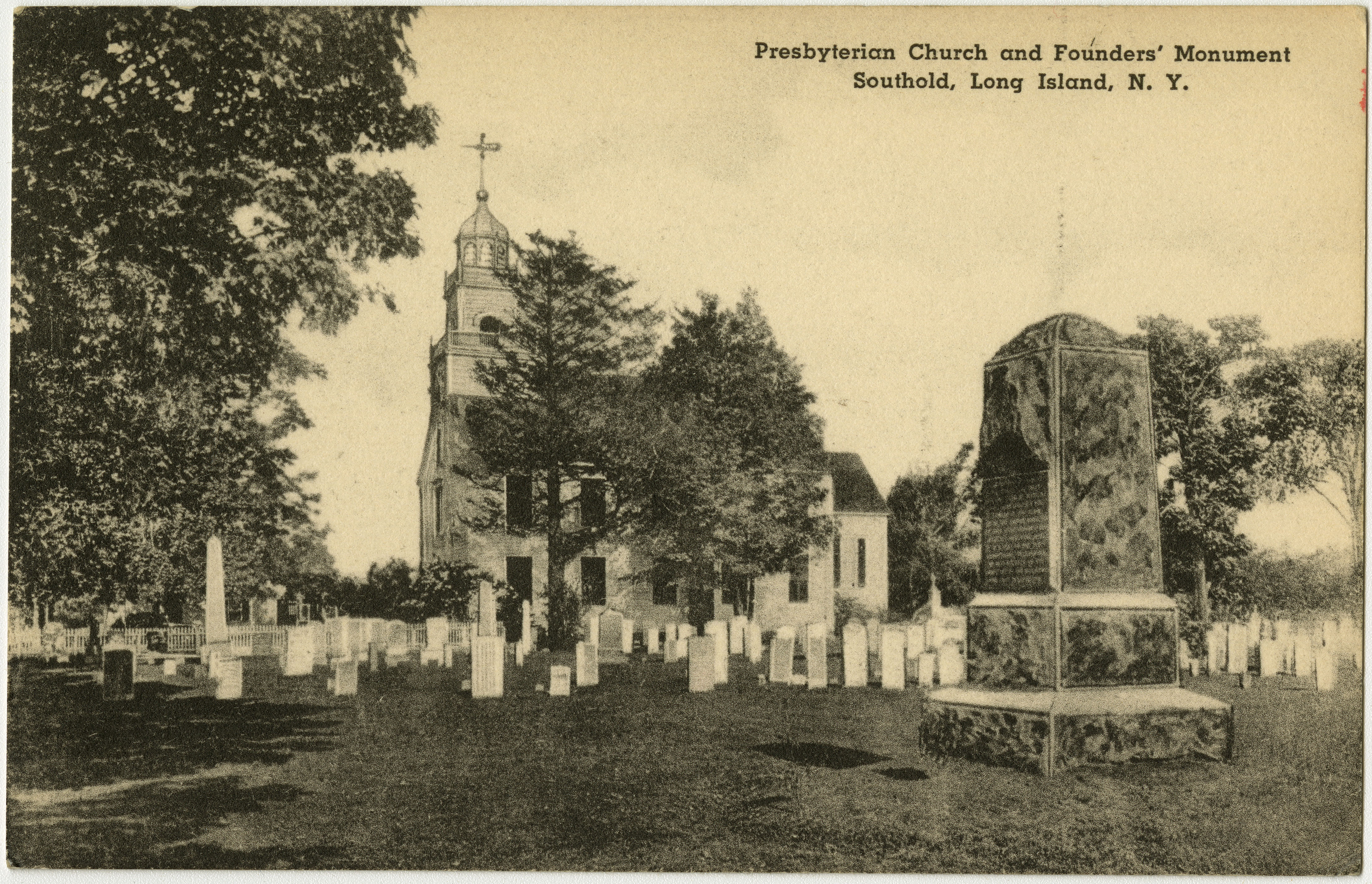 Presbyterian Church in Southold, New York from a pre-1923 postcard From RG 428, Postcard Collection, Presbyterian Historical Society, Philadelphia, Pennsylvania.